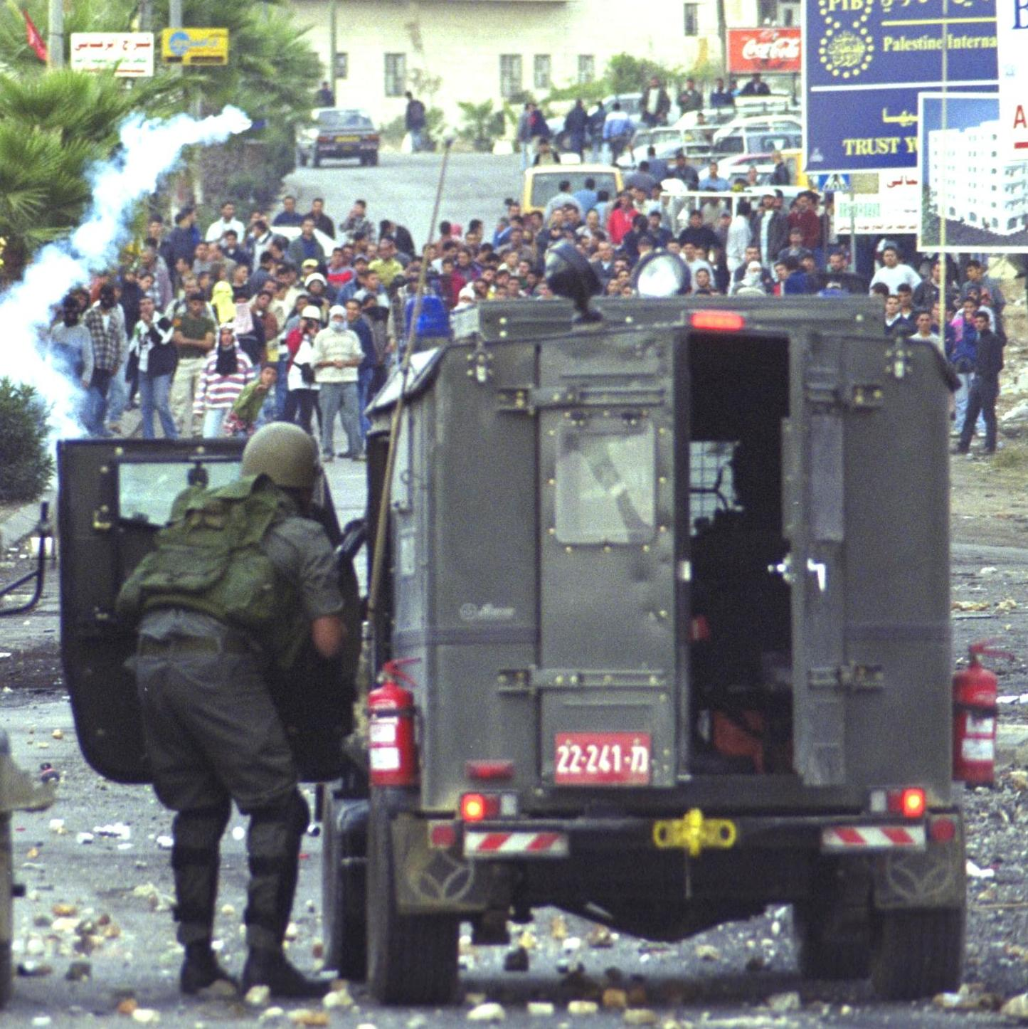 Palestinian rioters confronting security forces, at "Ayosh" Junction, near Ramallah.